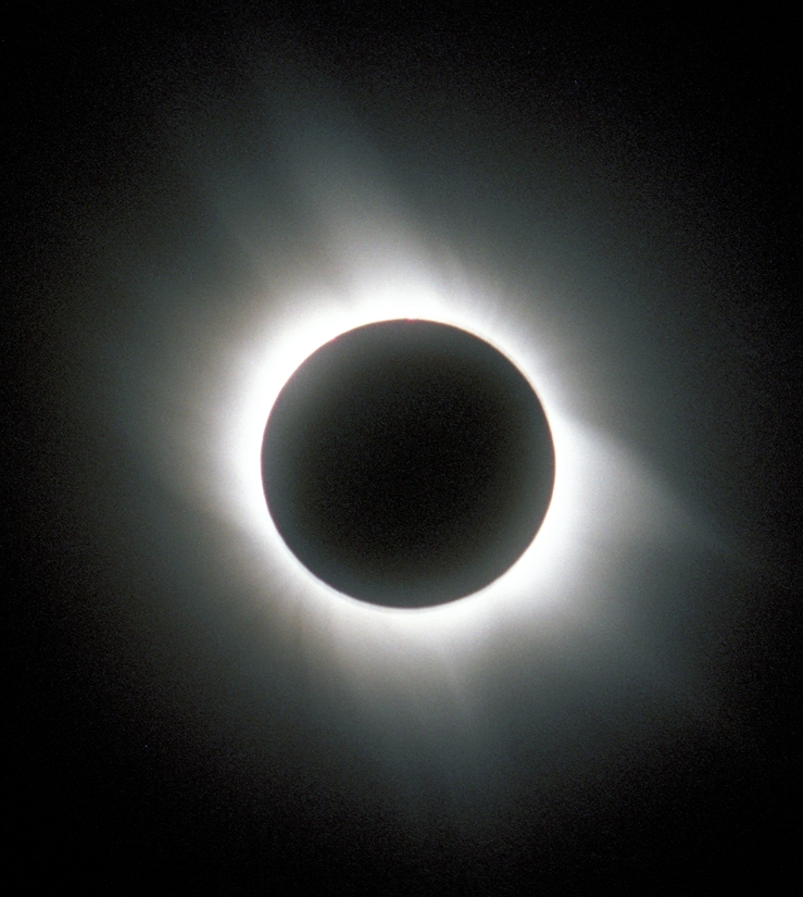 total solar eclipse march 2006, photo taken in side, turkey